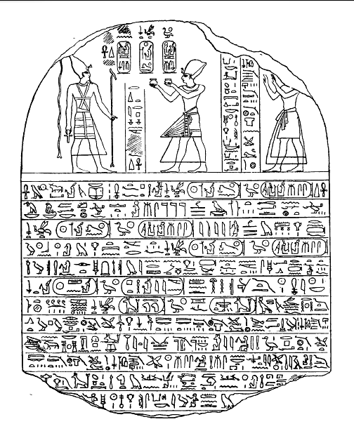 A drawing of the famous "Stele of Four Hundred Years", or "400 Year stele". The stele was erected in the Year 34 of Ramesses II for the worship of the god Seth of Avaris, here cited as a king (Opehtiset Nubti, row 7) lived 400 years earlier. Other kings are cited, too (Ramesses II: top, and rows 1, 3, 4; Seti I: row 6). Found in Tanis.